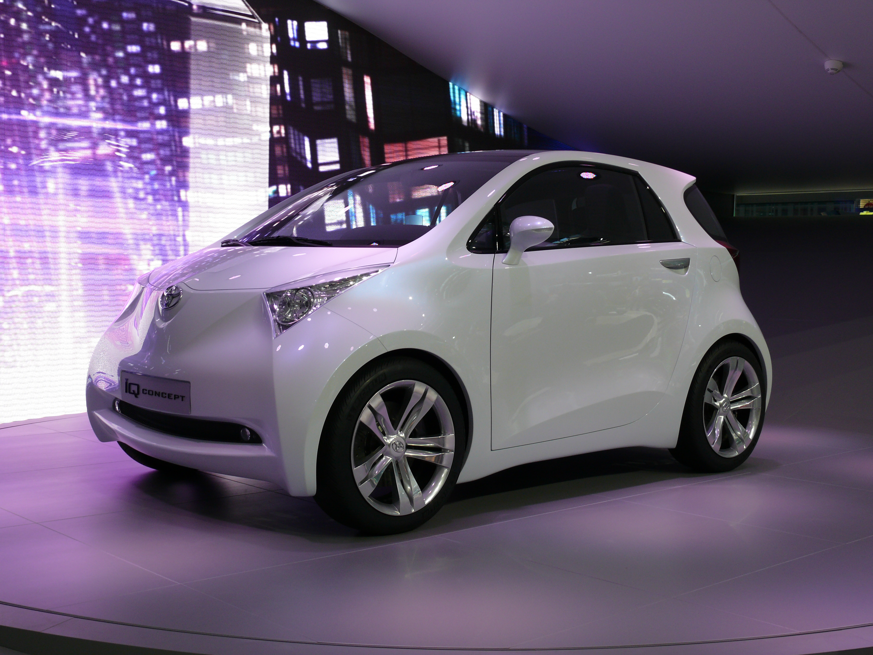 Toyota iQ Concept at the IAA 2007